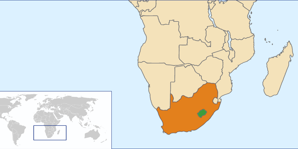 File showing the locations of the Kingdom of Lesotho and the Republic of South Africa